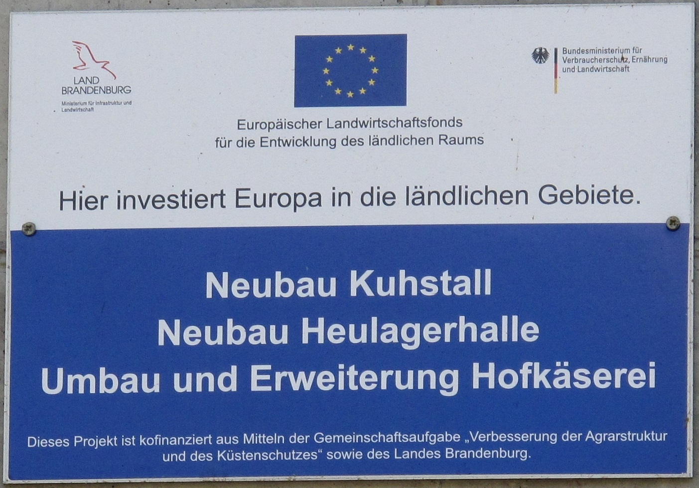 Sign of the European Agricultural Fund for Rural Development at the 2011 finished new cowshed in „Hof Marienhöhe“. Marienhöhe is a part (settlement, estate; german: Wohnplatz) and organic farm of Bad Saarow, District Oder-Spree, Brandenburg, Germany. The place was established in 1880 as folwark of the manor Saarow. Since 1928 the „Hof Marienhöhe“ works on the biodynamic agriculture-method (Demeter international) and is considered to be the oldest farm working with this method in Germany.